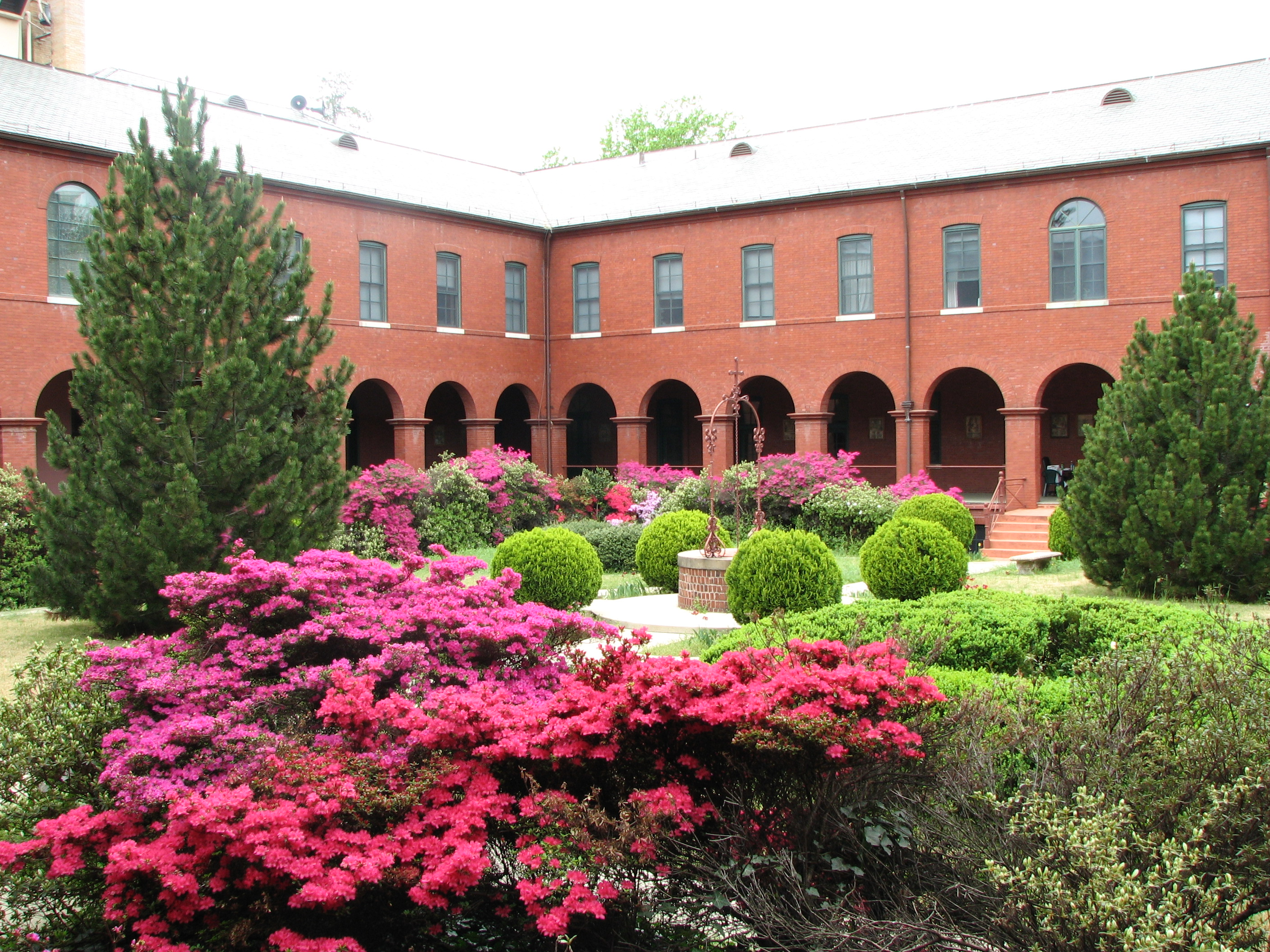 The courtyard of the Franciscan Monastery in Washington DC